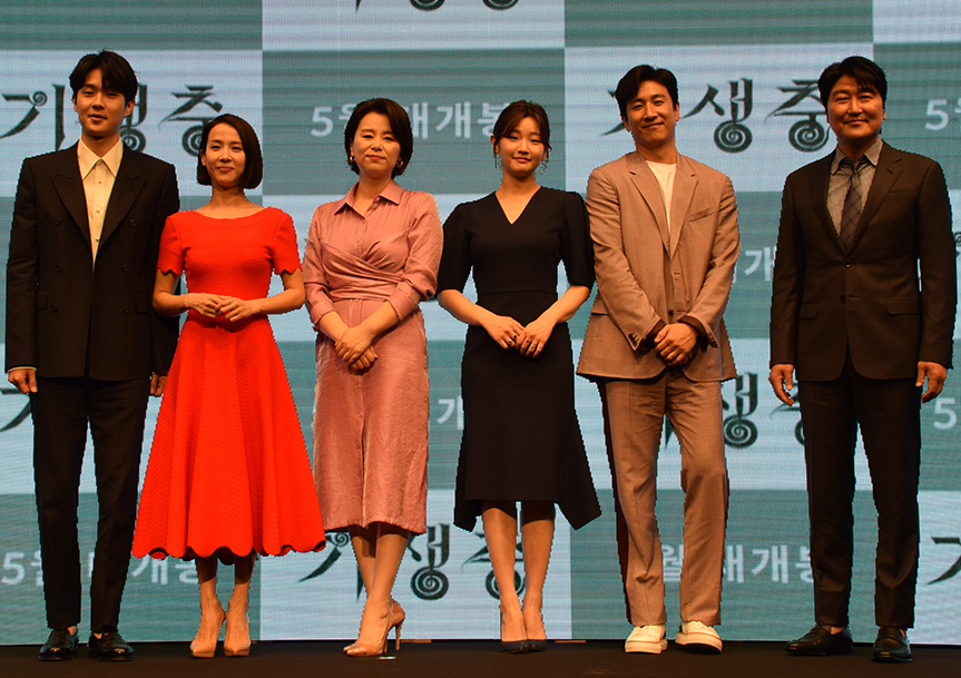 From left to right: Choi Woo-shik, Cho Yeo-jeong, Lee Jung-eun, Park So-dam, Lee Sun-kyun and Song Kang-ho.